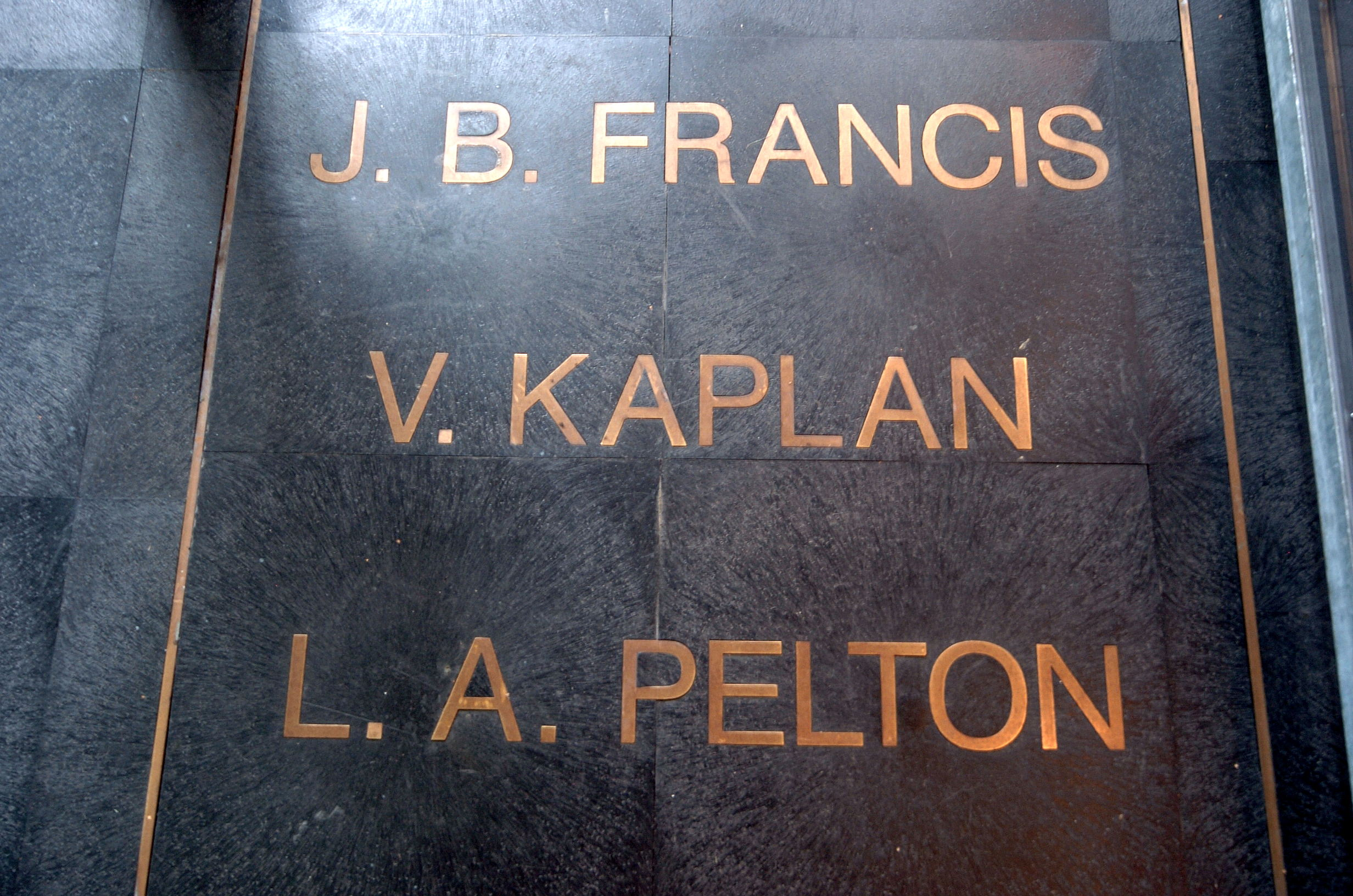 Floor inscription stone, naming the three inventors of turbines at the hydroelectric power-plant (designed by Franz Baumgartner) in Saag #15, municipality Techelsberg, district Klagenfurt Land, Carinthia, Austria, EU